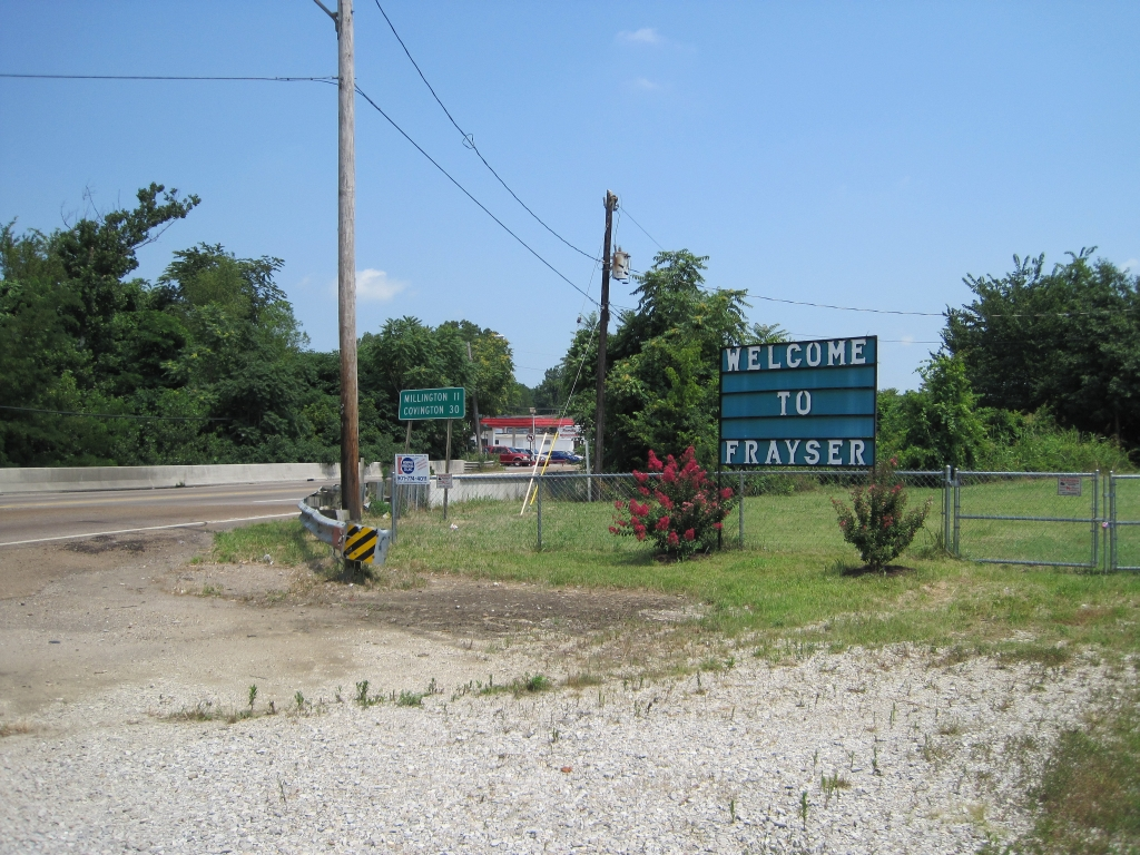 Frayser, Memphis. Welcome to Frayser.